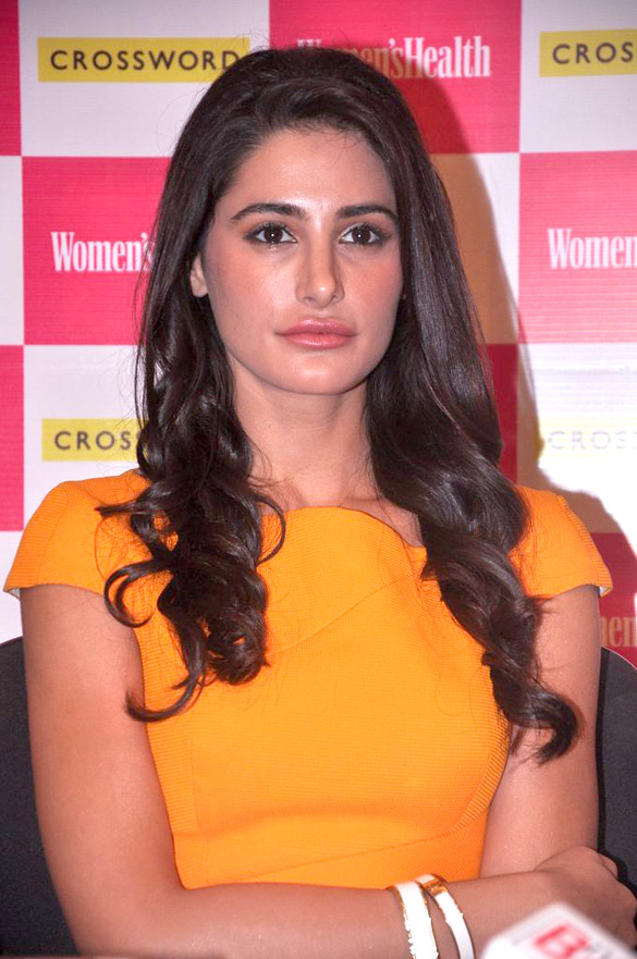 Nargis fakhri womens health launch